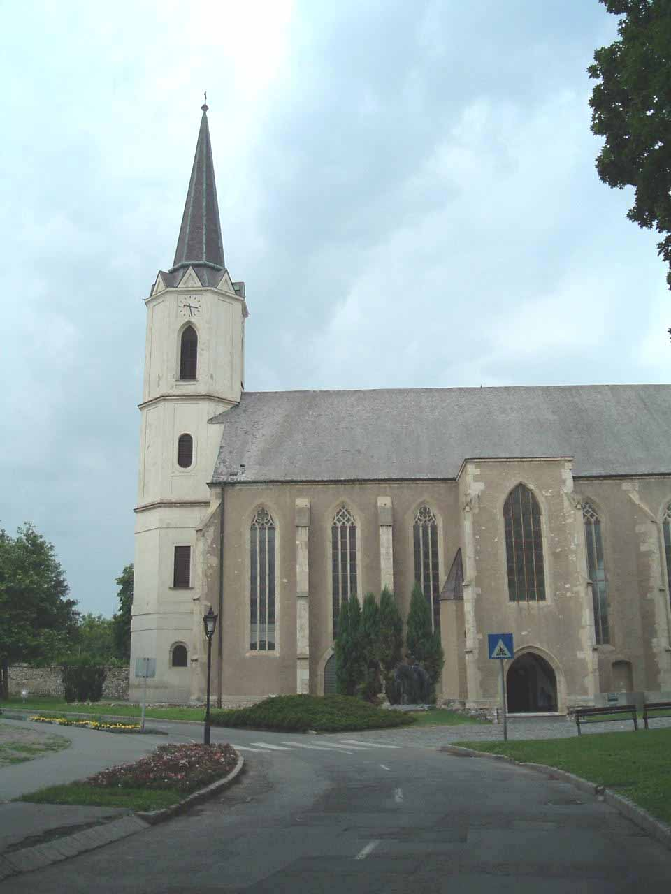 The church of the Castle, Sárospatak, Hungary